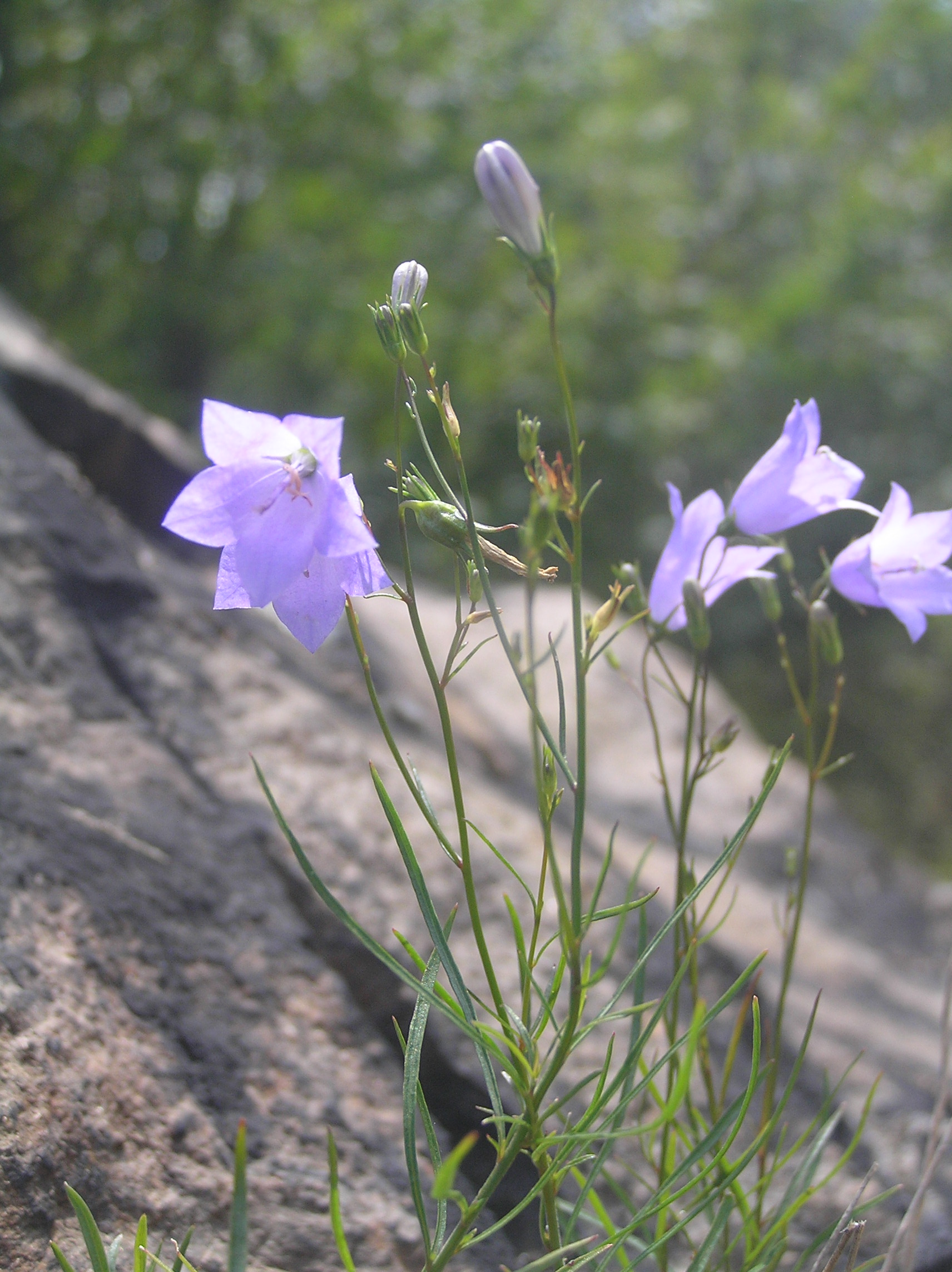 Campanula gentilis, Vrané nad Vltavou, Czech Republic